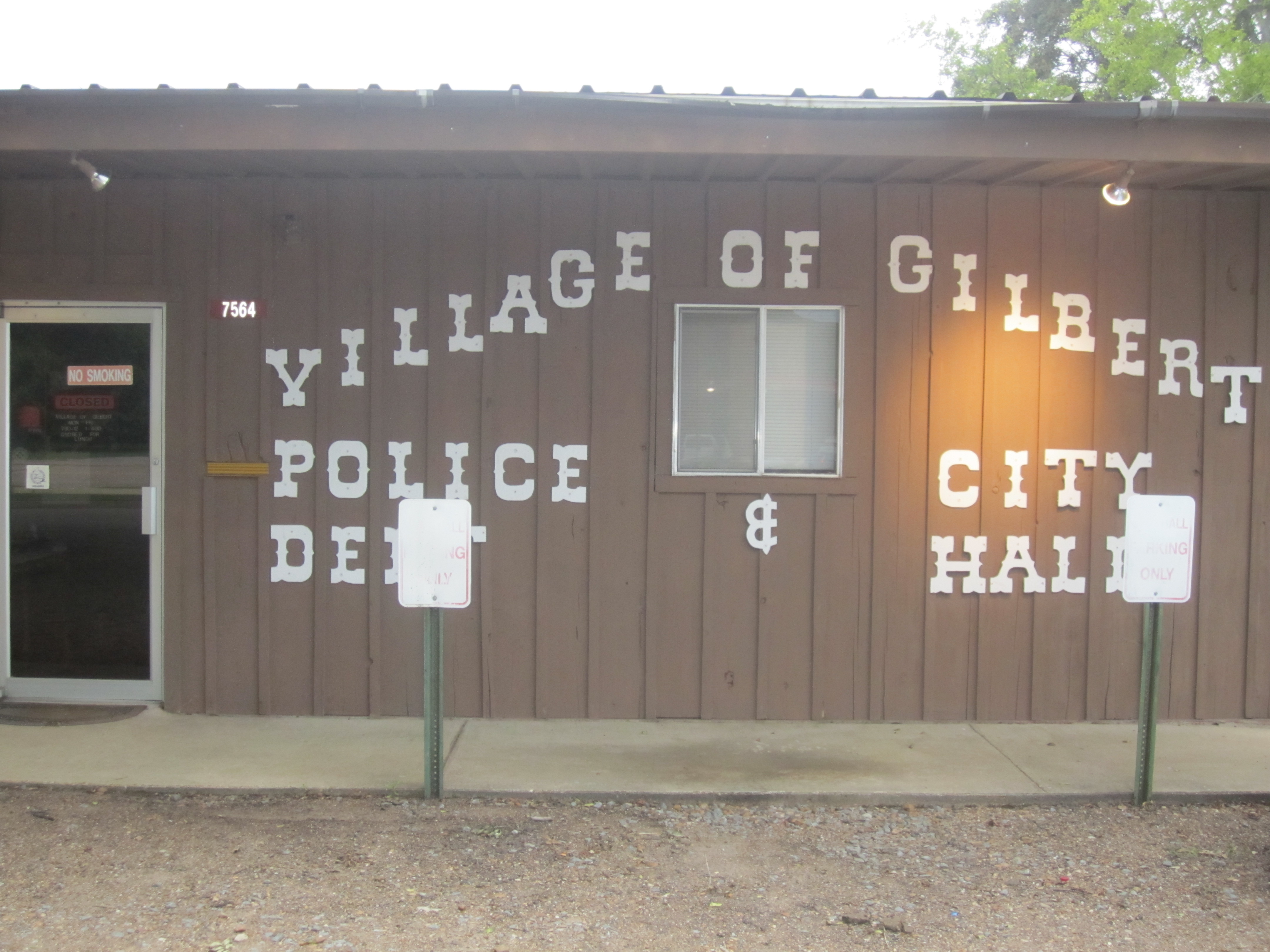 I took photo with Canon camera in Gilbert, LA.